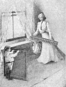 "Pureairin" Patent Ventilator. Made in all sizes. Pureairin Patent Ventilator Company, 639 June Street, Cincinnati, Ohio, US.